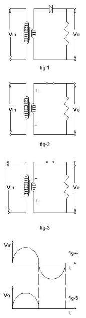 Halfwave rectifier